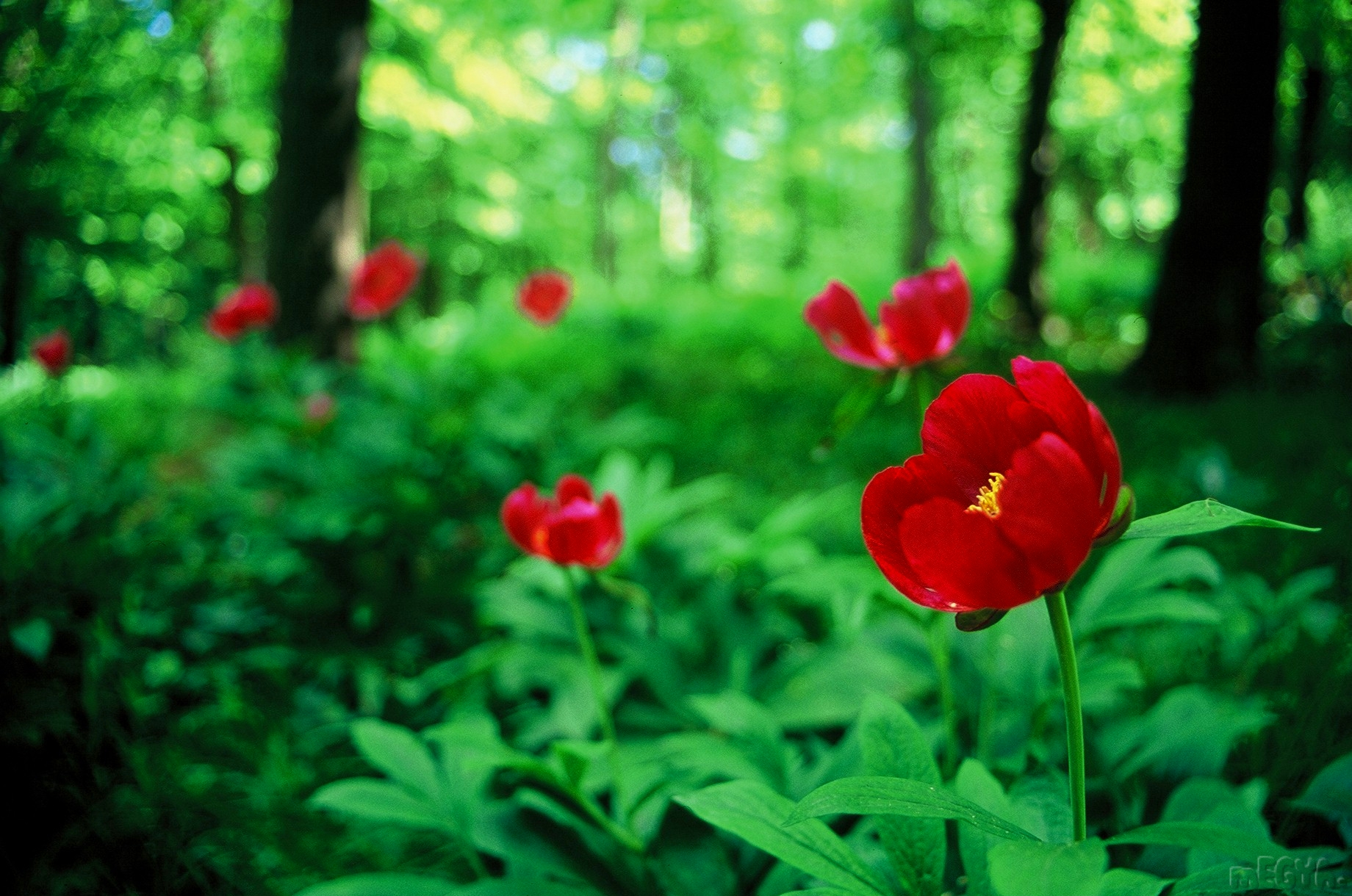 Blooming Paeonia officinalis subsp. banatica on Somos Hill in the East-Mecsek mountain, Hungary